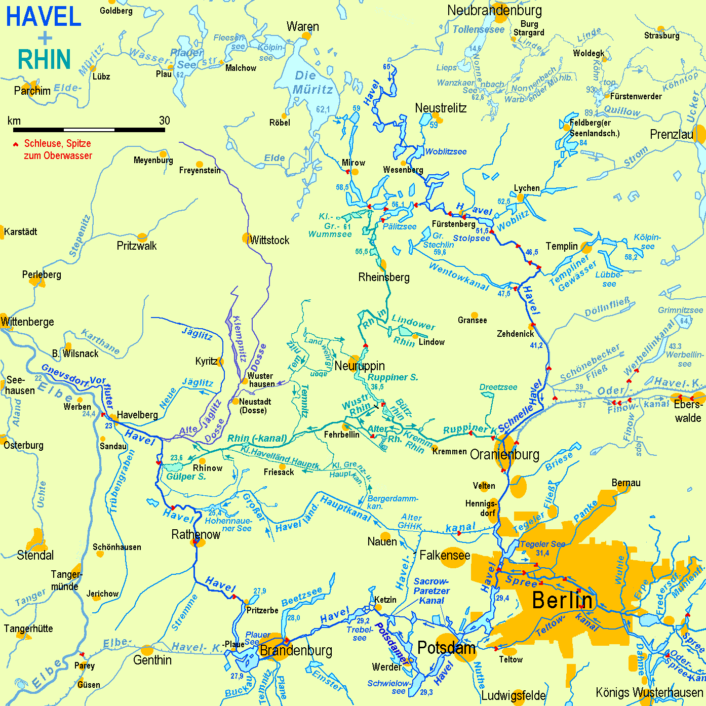 Map of the rivers Havel (Dark blue) and Rhin (green) with adjoining canals and rivers.